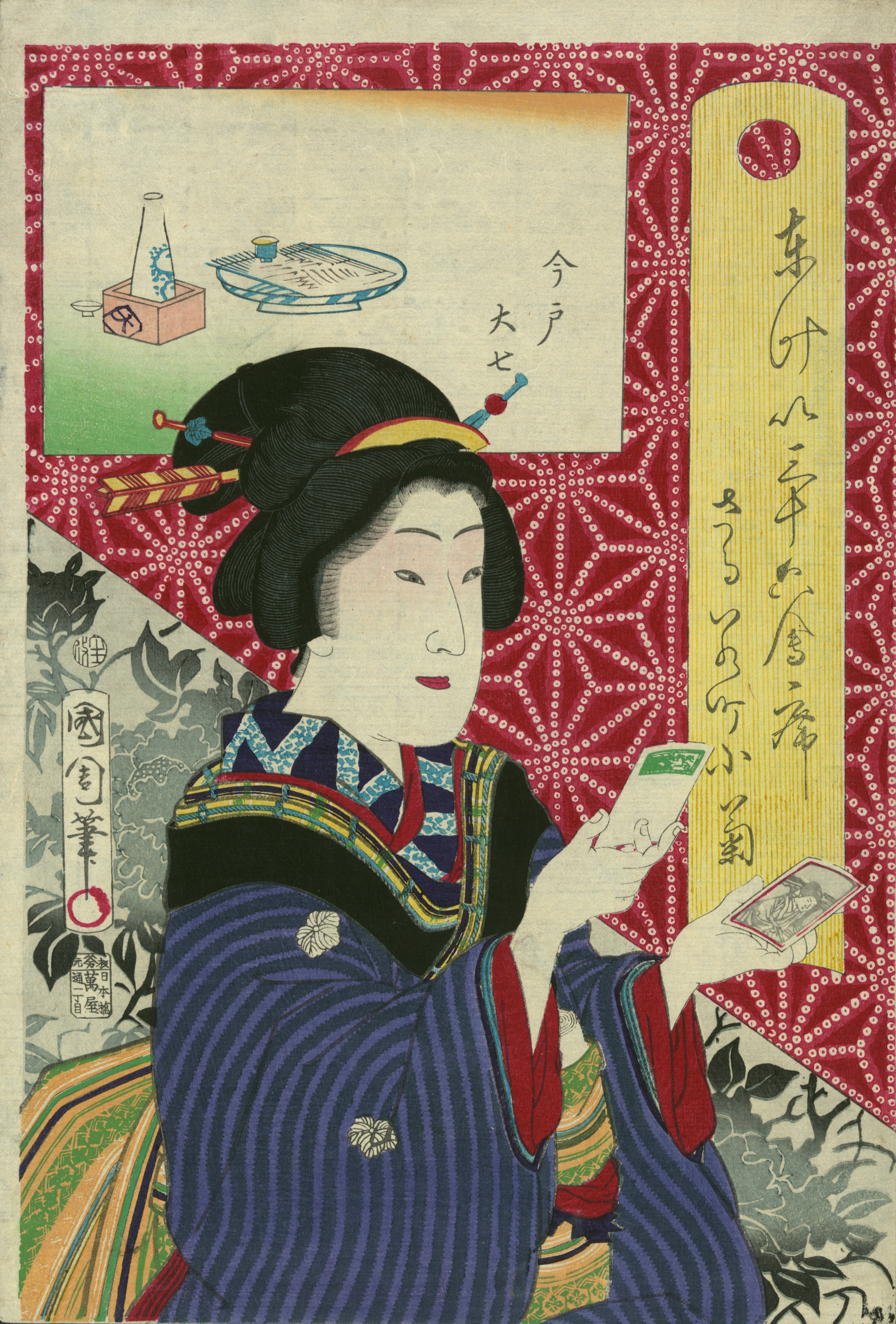 Kogiku in Saruwaka-Cho SUMMARY: Ukiyo-e print showing a beautiful woman, Kogiku, looking at photographic portraits (cartes de visite), possibly of her admirers. Photography was so new in Japan when this print was created that the artist is also representing his country's growing contact with the western world and modern technology. The sake and grilled fish in the rectangle above the woman's head show one restaurant's culinary specialties. The long, vertical cartouche on the right calls the woman Kogiku, which translates as "small chrysanthemum," and gives the address in Saruwaka-Cho (now Asakusa), an entertainment district in Japan's capital city. The stamp on the carte de visite represents the noted Tokyo portrait photographer Uchida Kuichi (1844–1875), who had a studio in Asakusa. MEDIUM: 1 print : woodcut, color ; 37 × 25 cm. Format: Vertical Oban.